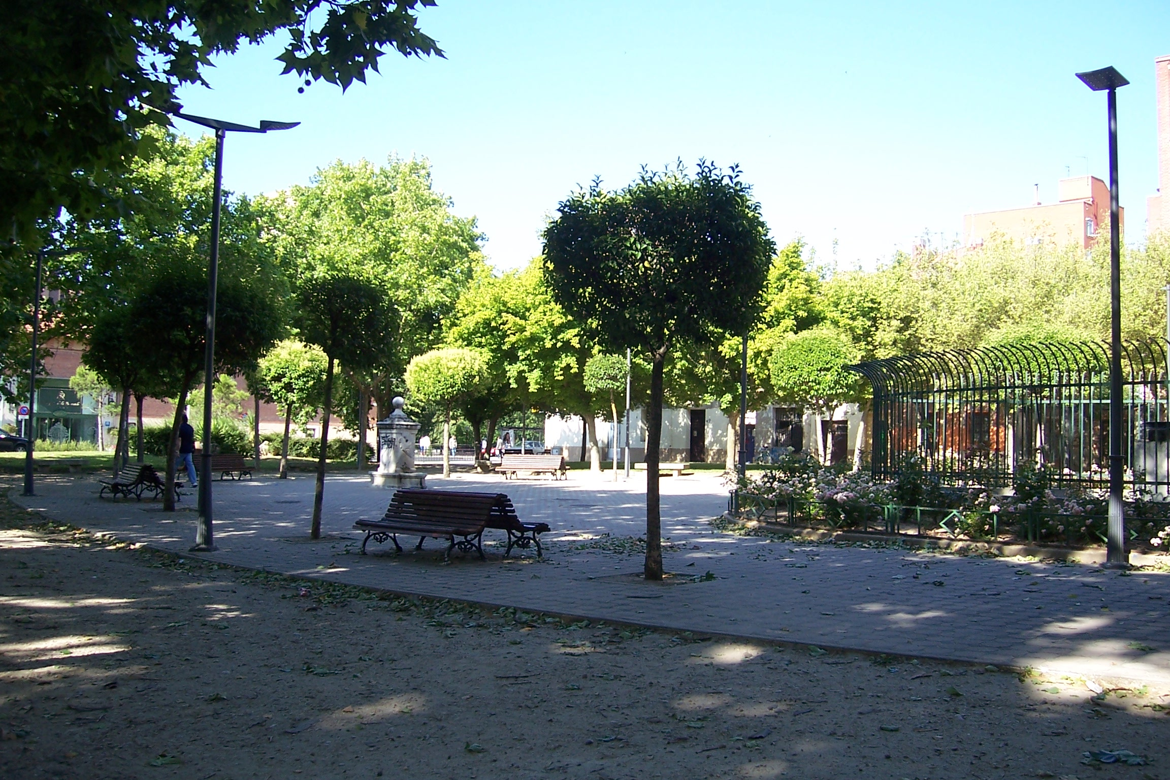 San Bartolomé Square in Valladolid.